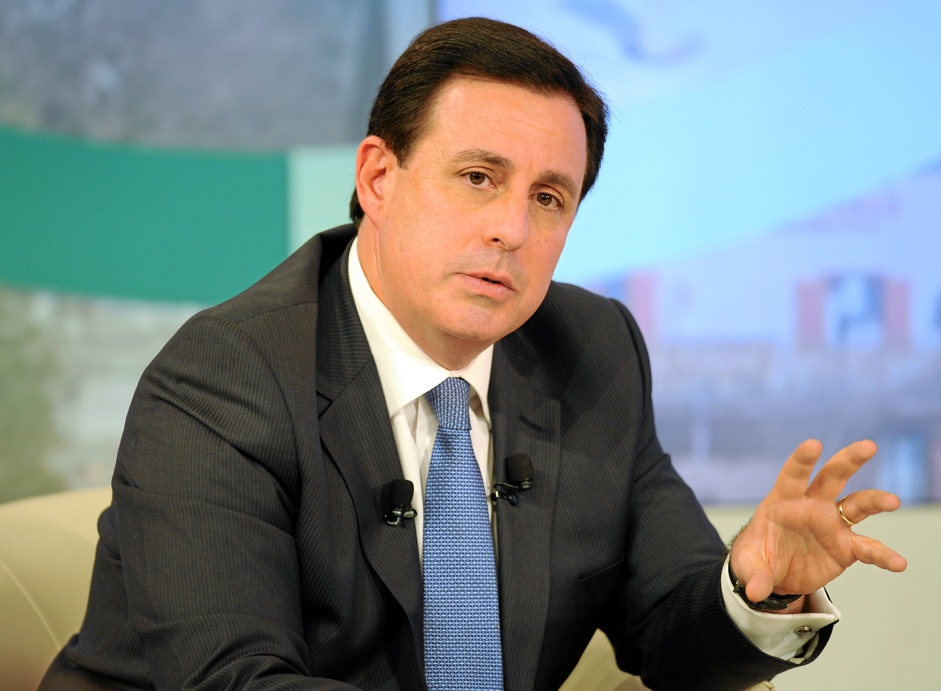 DAVOS/SWITZERLAND, 27JAN12 - John K. Defterios, Anchor and Emerging Markets Editor, CNN International, United Arab Emirates; Global Agenda Council on the Arab World speaks during the session 'Can Emerging Markets Deliver Global Growth?' at the Annual Meeting 2012 of the World Economic Forum at the congress centre in Davos, Switzerland, January 27, 2012. Copyright by World Economic Forum by Michael Wuertenberg